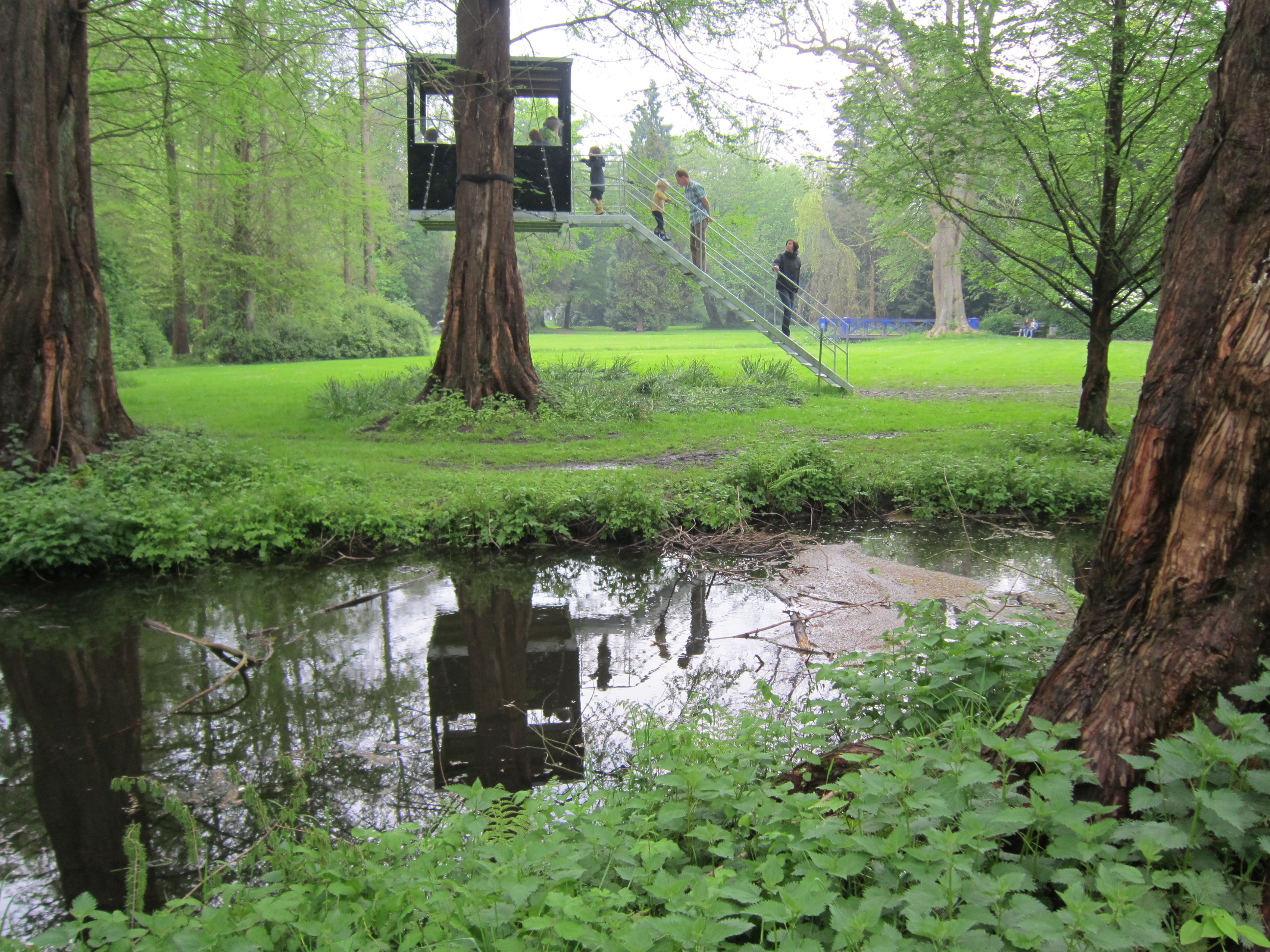 Temporary tree house in Oldenburg Castle Garden